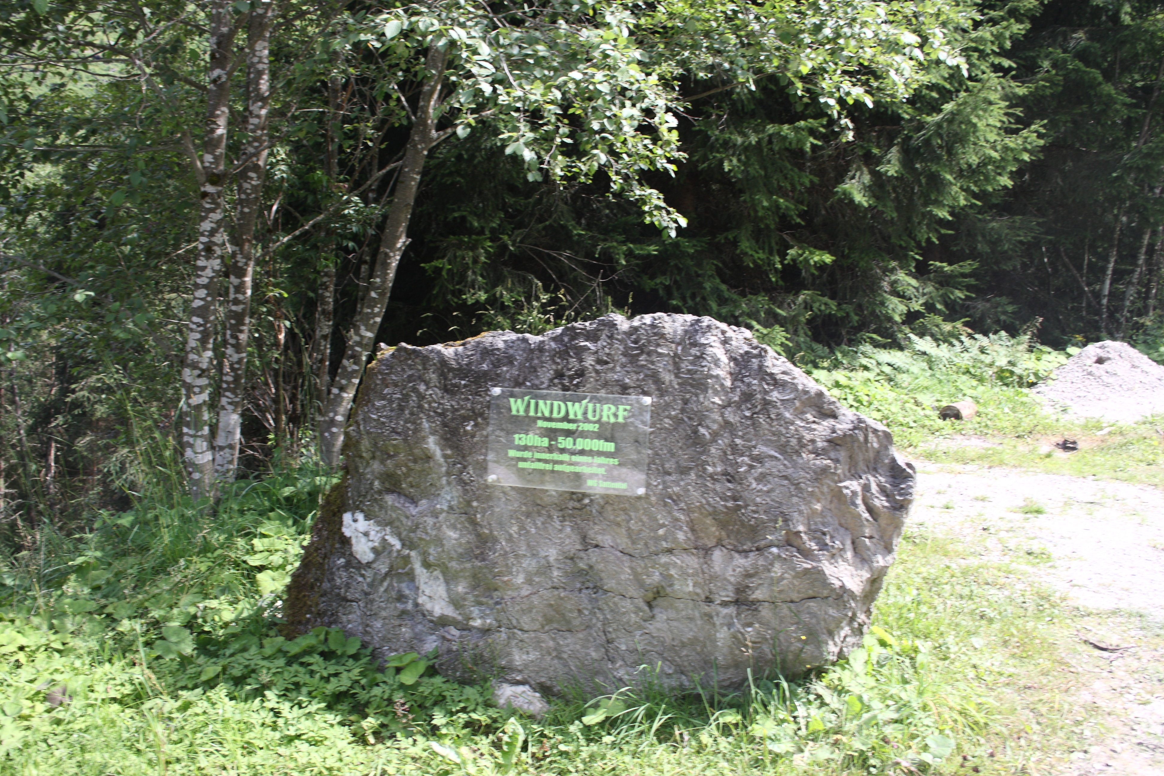 Memorial "Windthrow, November 2002, 130ha – 50.000fm, Worked off within one year, without accident, WG Sattental" in Sattental, Pruggern, Styria, Austria